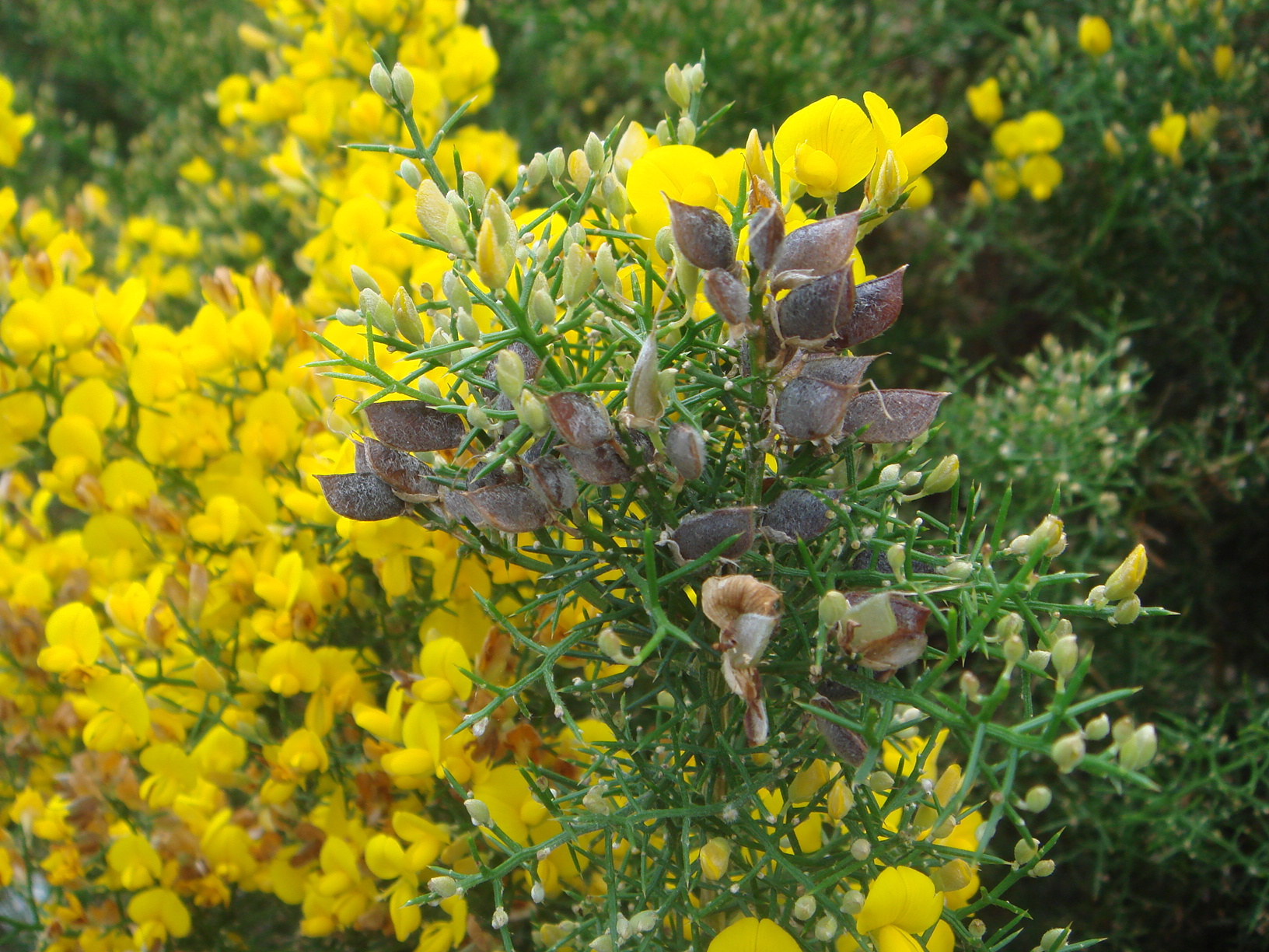 Stauracanthos, Spain, Ceuta.